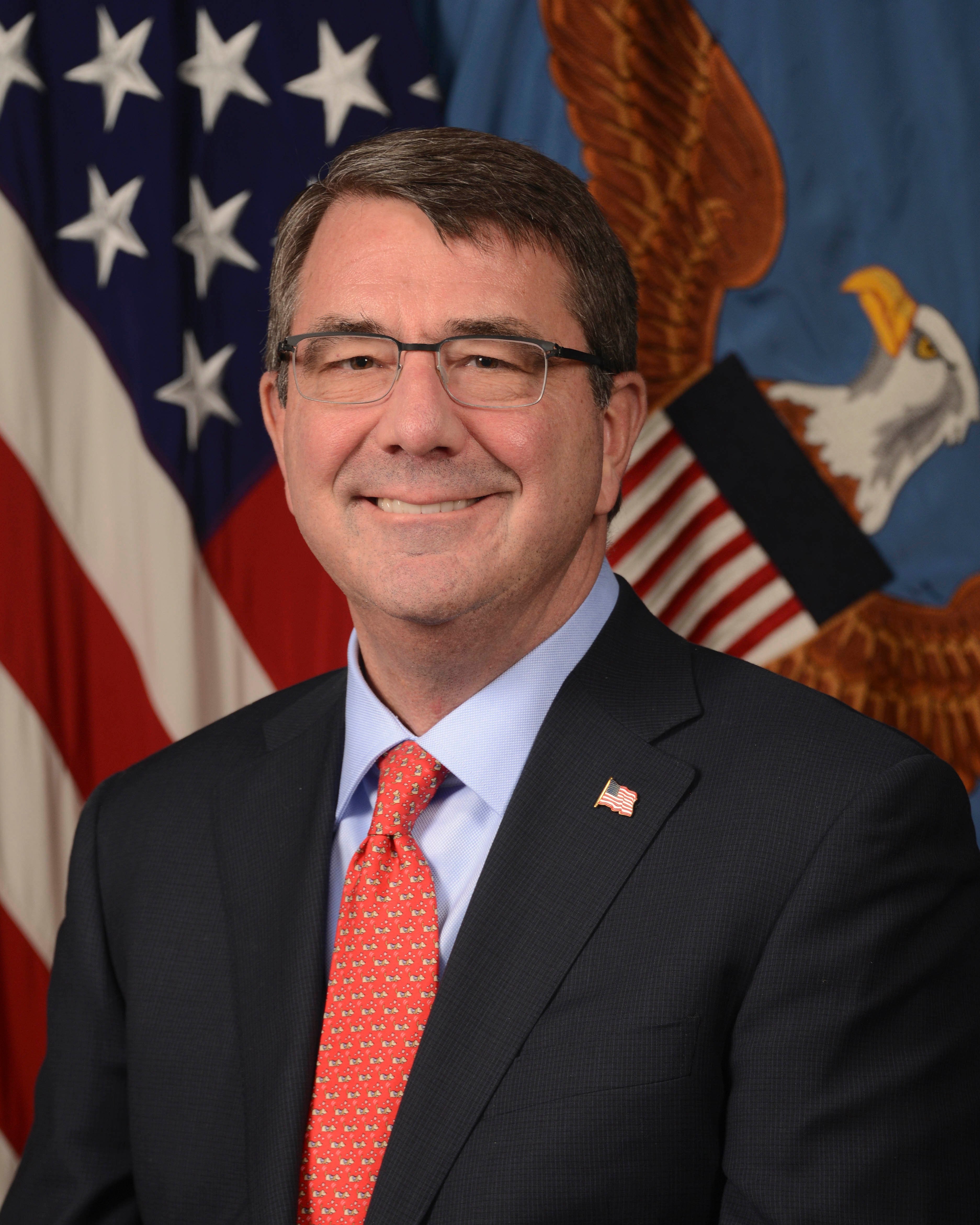 US Department of Defense portrait of Ashton B. Carter, Secretary of Defense.